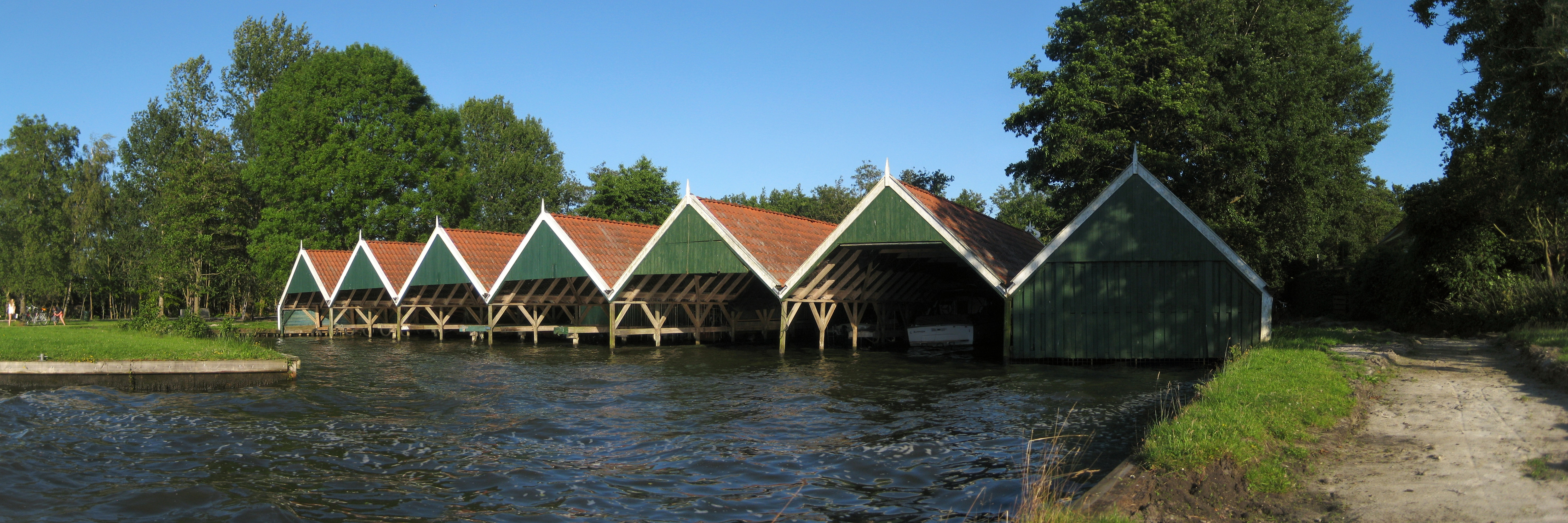 Boathoases (c. 1920) in Haren, a village in the Dutch province of Groningen.